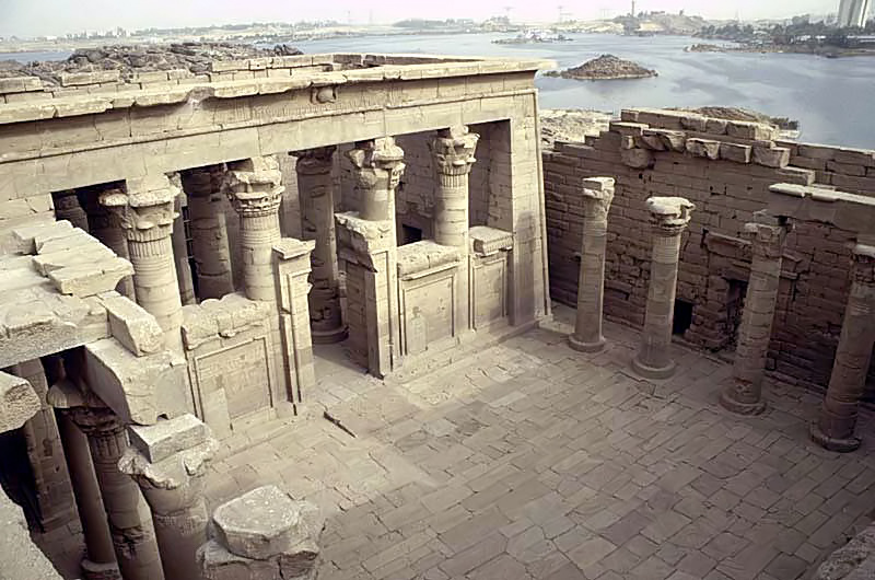 Court of the Temple of Kalabsha, Lake Nasser, Egypt